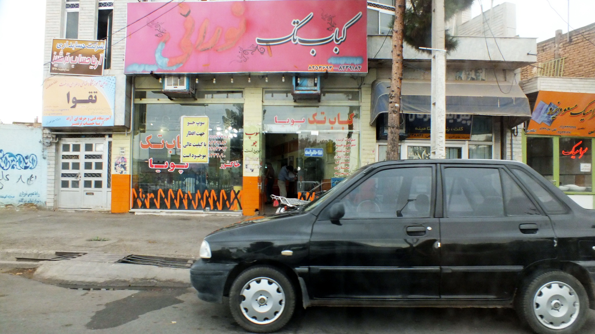 Kabab Tak - Kashmar